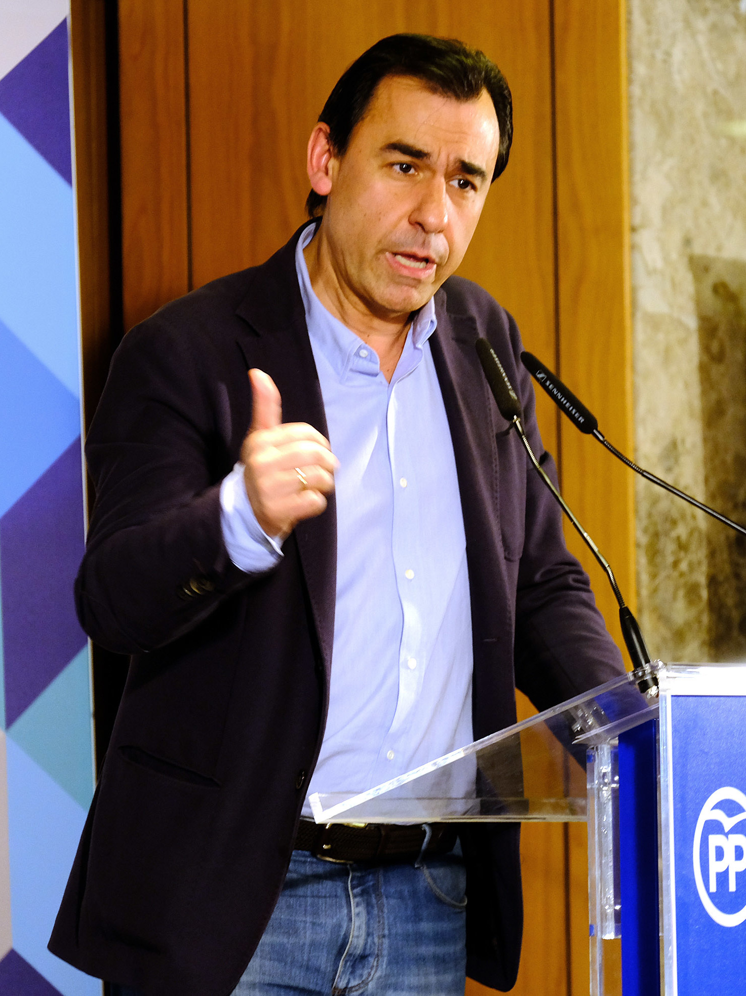 10/02/2018.- El coordinador general del Partido Popular, Fernando Martínez-Maíllo, clausuró un encuentro con cargos públicos y afiliados del partido en Santander. En el acto, que tuvo lugar en el Hotel Santemar de la capital cántabra, también intervinieron la presidenta regional del PP, María José Sáenz de Buruaga, y la alcaldesa de la ciudad, Gema Igual.